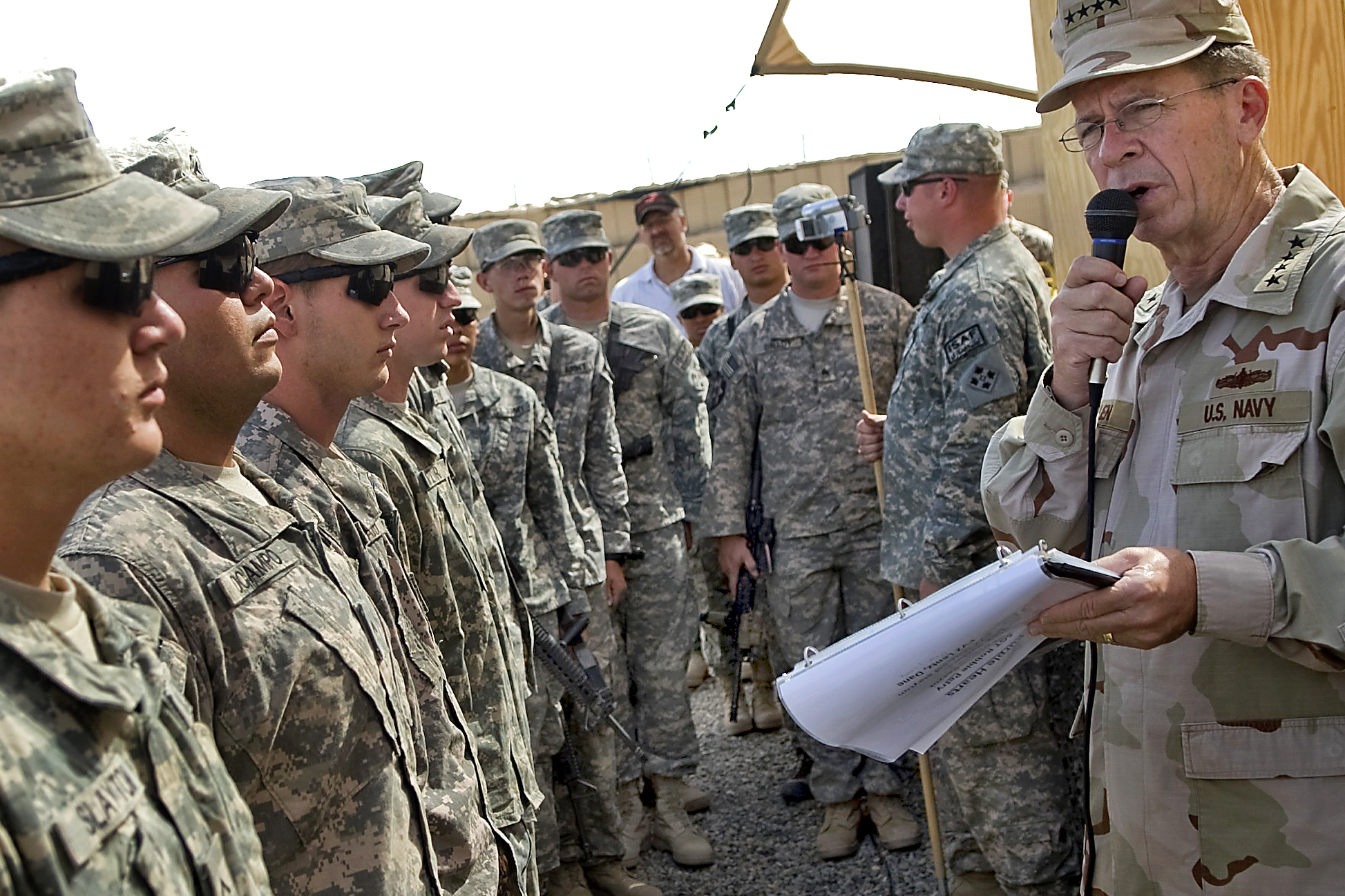 U.S. Navy Adm. Mike Mullen, chairman of the Joint Chiefs of Staff, reads the citations for seven Soldiers receiving Purple Heart honors on Forward Operating Base Ramrod, July 17, 2009, for wounds sustained in Helmand province, Afghanistan. DoD photo by U.S. Navy Petty Officer 1st Class Chad J. McNeeley See more at